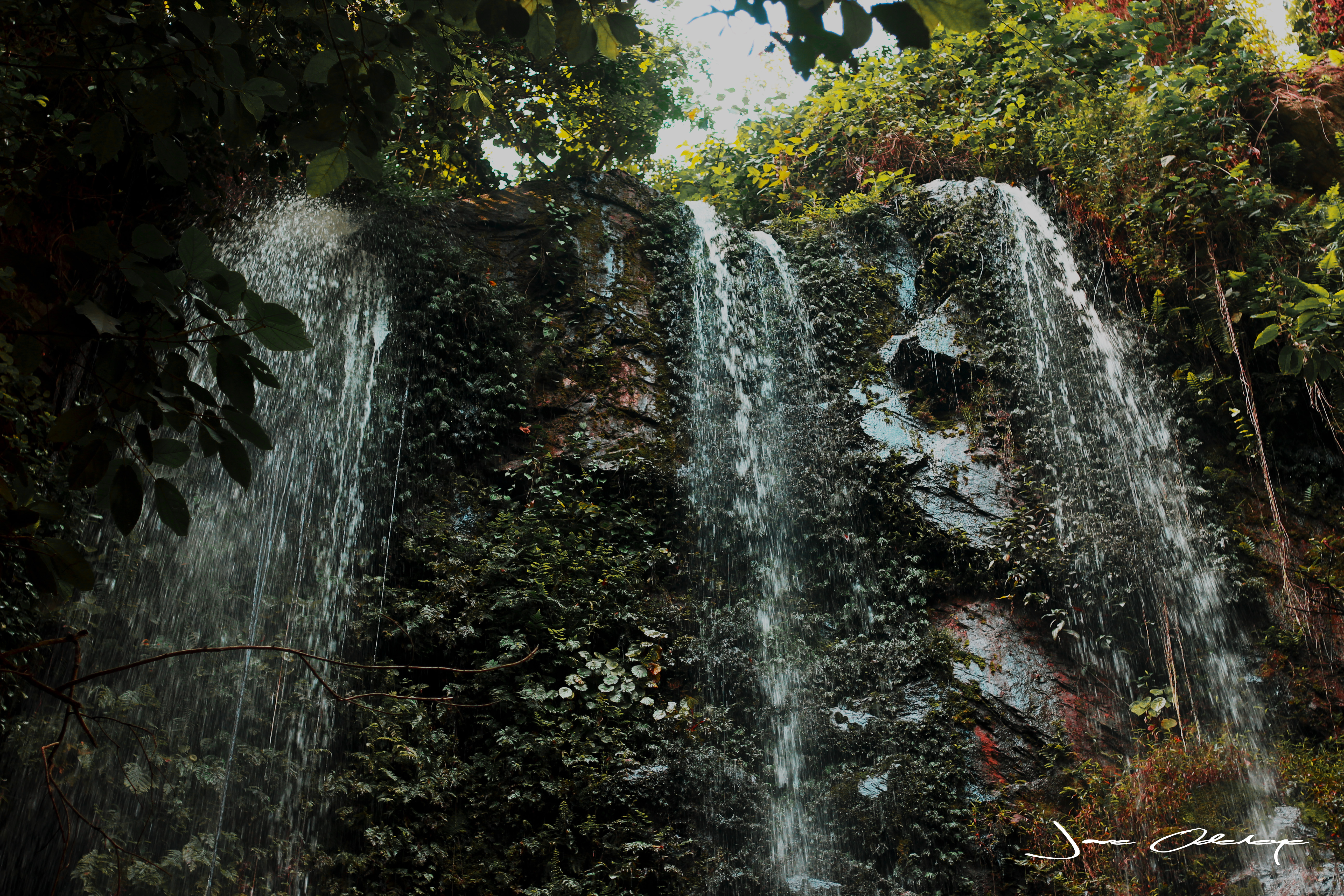 The Erin ijesa waterfall